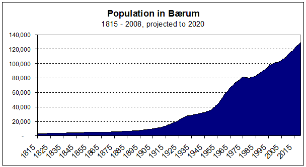 Reported and forecast population in municipality of Bærum, Norway. Source of data is Asker og Bærums-leksikon and Bærum kommune